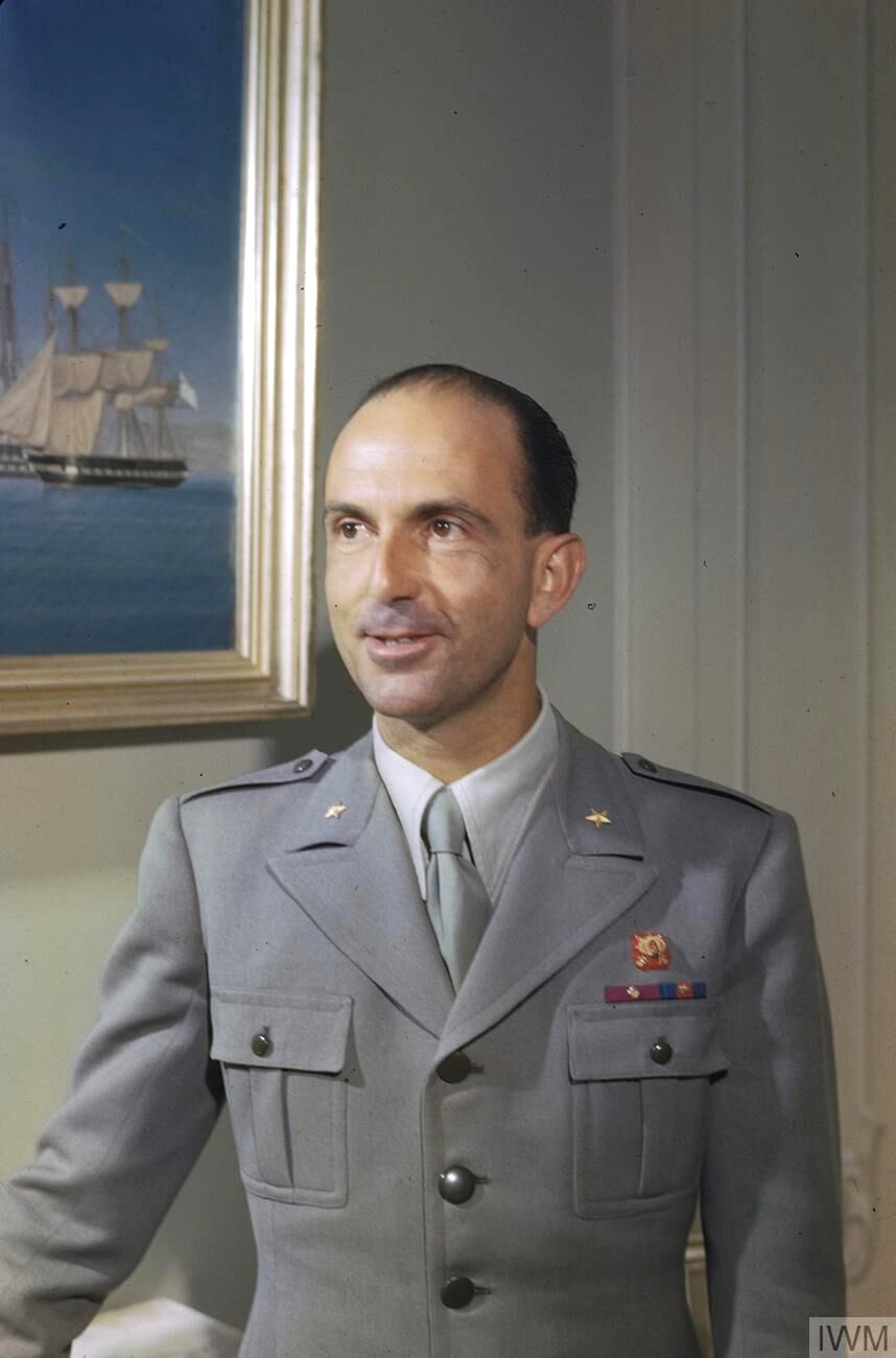 Hrh Prince Umberto of Italy, May 1944 Half length portrait of HRH Prince Umberto in his villa at Naples.